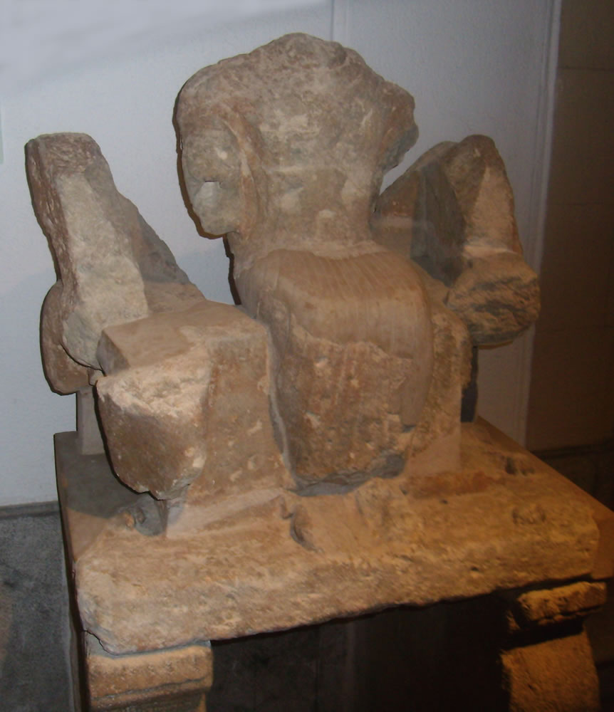 Statue of Punic goddess, found in Solunt